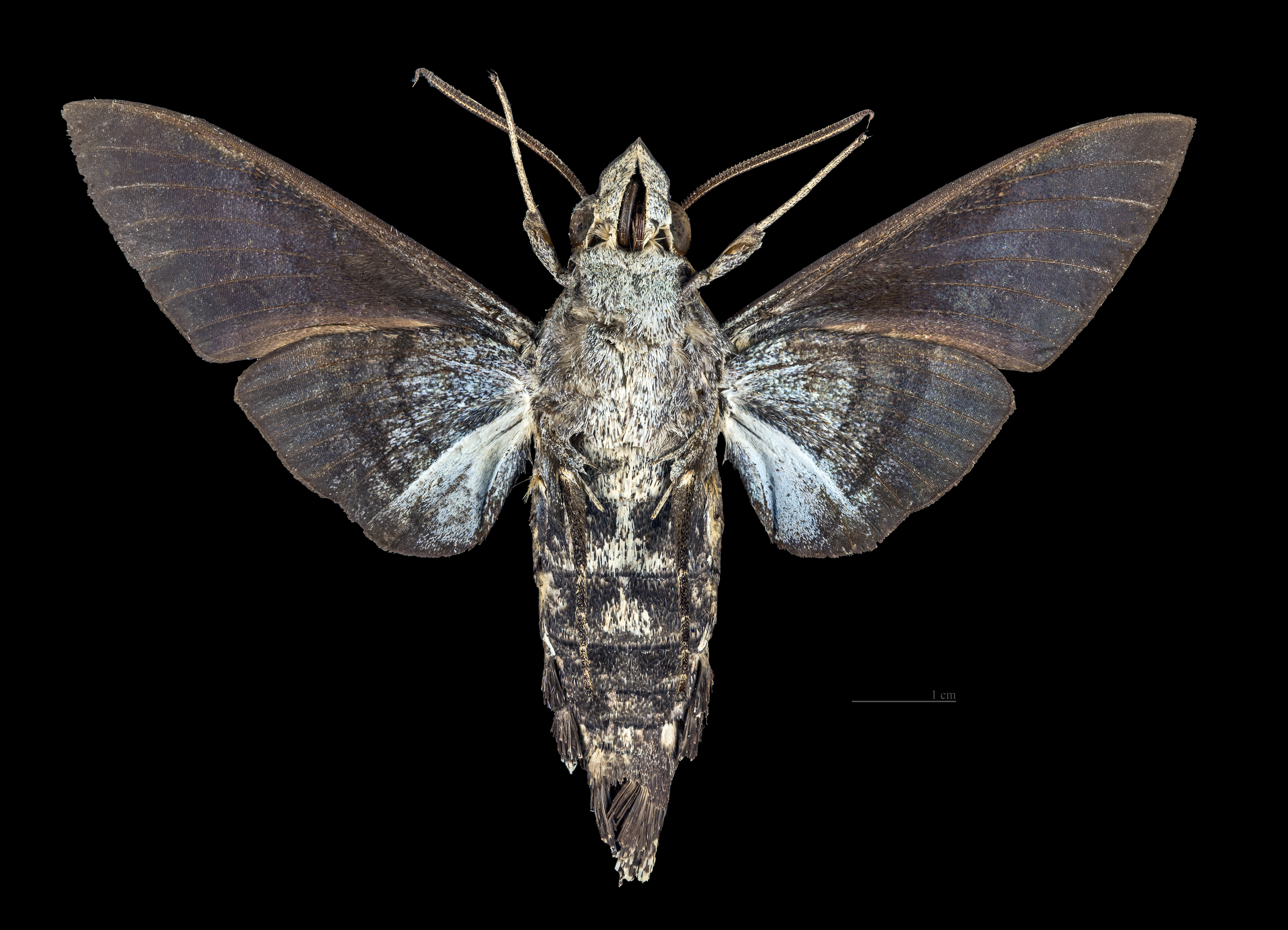 Macroglossum tenebrosa - △ Ventral side Collection of the Mathematician Laurent Schwartz